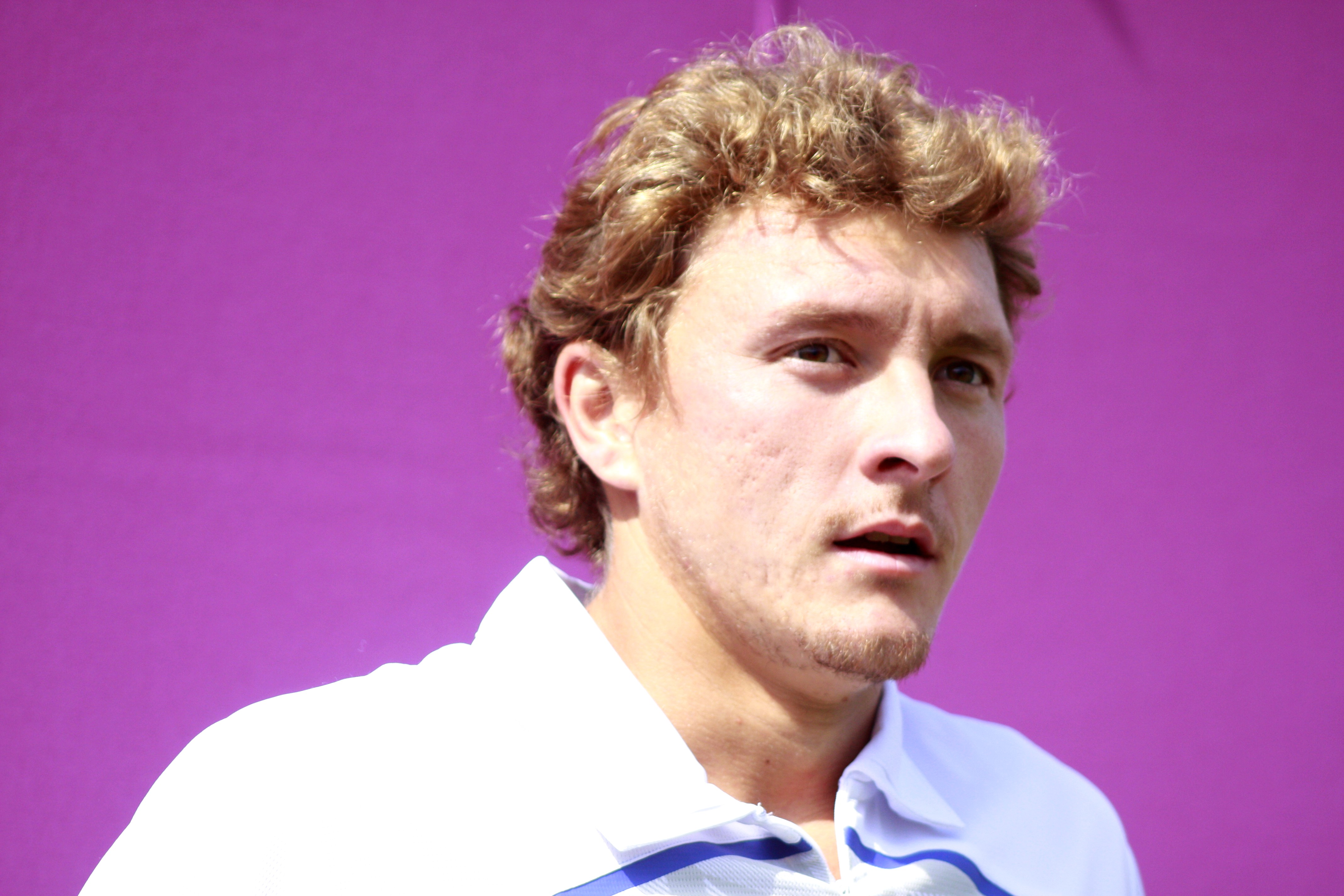 Denis Istomin at the 2012 Olympic Games